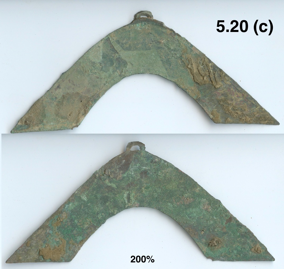 OTHER EARLY MONEY FORMS ca. 400 - 220 BC PHOTO H# DESCRIPTION DETAILS PRICE The I pi, ant nose, or imitation cowrie monies of Chu State were used from the 8th-3rd c. BC, thus contemporary with the oldest knife and spade monies. Apparently they were controversial in Schjoth's day as he did not include them in his coinage section. Halberd money, also known as Ko money, Ge, or Je, is a small, fragile imitation of a weapon combining an ax with a spear, used in.Wu State during Spring & Autumn Annal (c.526-476 BC). Although only recently discovered, they are widely accepted by Chinese archaeologists as money due to an apparent size/denominational structure, and where they are placed in burials. Bridge Money have now been dated to c. 306-221BC and are accepted by many - but not all - Chinese numismatists as actual coins of Ba and Shu States. 5.20c Bridge: Loop-top, with design. (Ch'ing or Tingle-tangle) Ba & Shu States, Szechuan, ca. 306-221BC Design: Border, 120mm 14.35gm Crusty $ 60.00 5.20j Bridge: Loop-top, with design. (Ch'ing or Tingle-tangle) Ba & Shu States, Szechuan, ca. 306-221BC Design: Border & internal lines, 131mm 15.31gm Crusty, loop broken away $ 40.00 5.40b Bridge: Pierced-top, with design (Ch'ing or Tingle-tangle) Ba & Shu States, Szechuan, ca. 306-221BC 105mm, 5.05gm Two small sand holes $ 45.00.